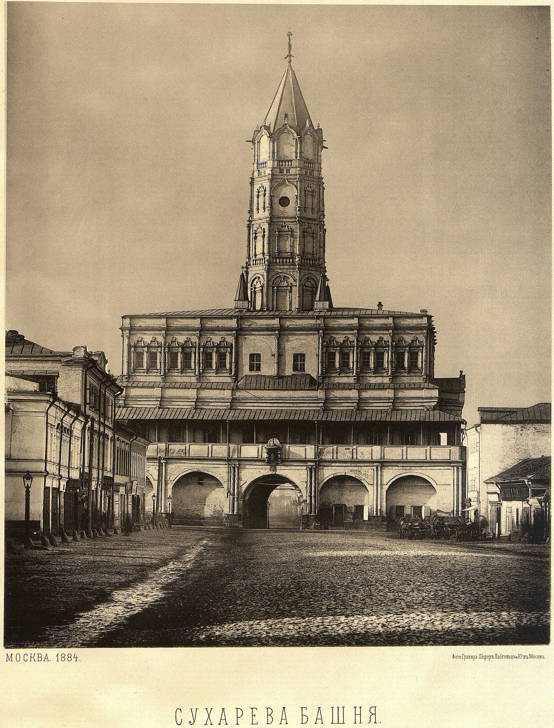 Plate 79. Suharev Tower, Moscow.